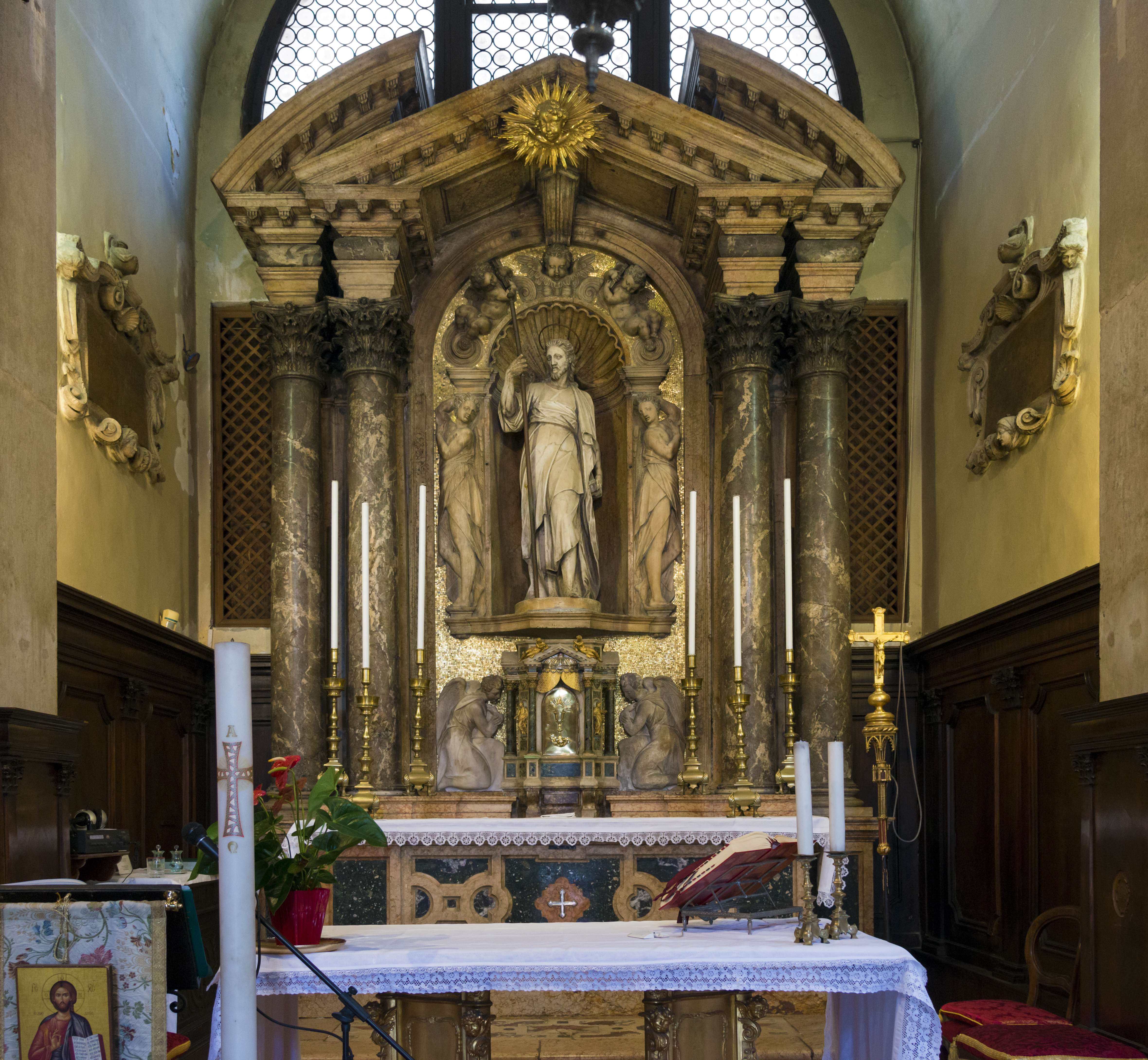 San Giacomo di Rialto Venice, altarpiece. The statue of St. James by Alessandro Vittoria (1602)